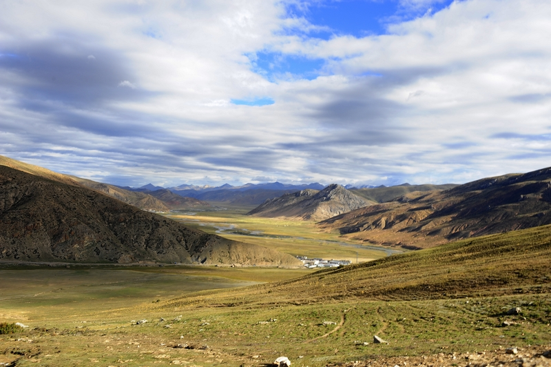 Pomda, Baxoi (Pashoe) County, southeastern Tibet